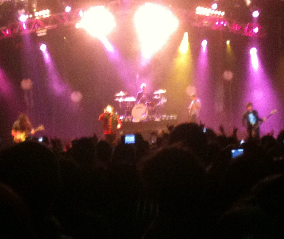 You Me At Six performing at the Wolverhampton Civic Hall in December 2010 as part of their "final Hold Me Down Tour".